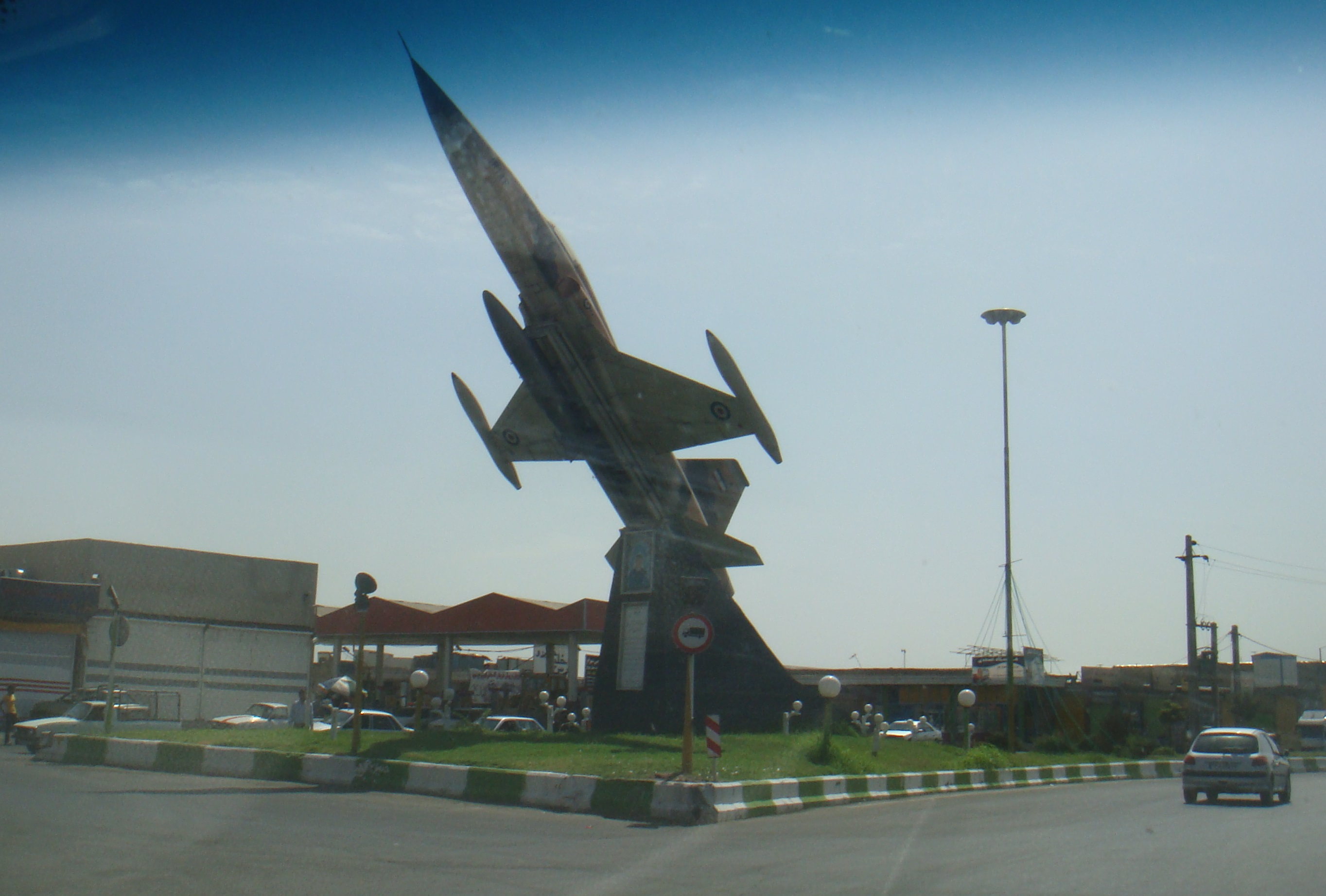 Memorial of pilot martyr Sattari with F-5 in Qarchak, Tehran province, Iran